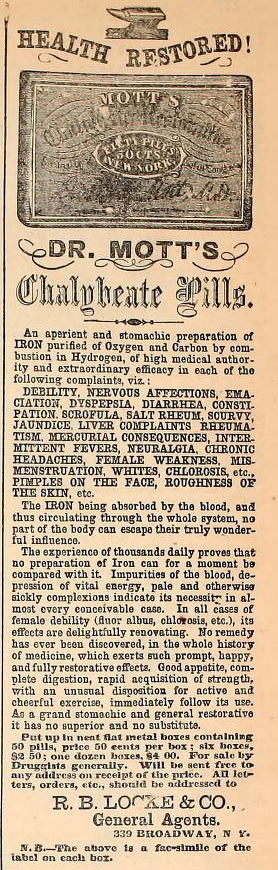 washing machine advertisement